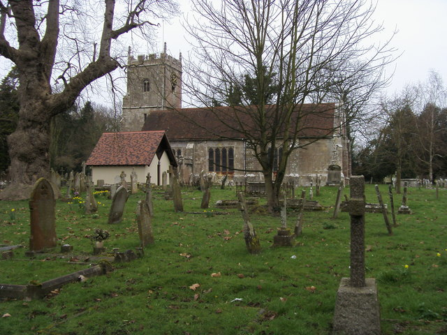 North Stoneham Church off Stoneham Lane